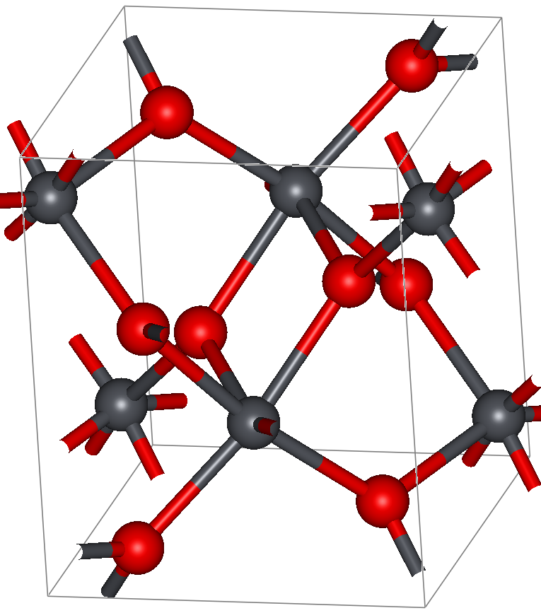 Crystal structure of the mineral scrutinyite (alpha PbO2). Red atoms are oxygens. Wyckoff R W G Crystal Structures 1 (1963) 239-444 Second edition. Interscience Publishers, New York.